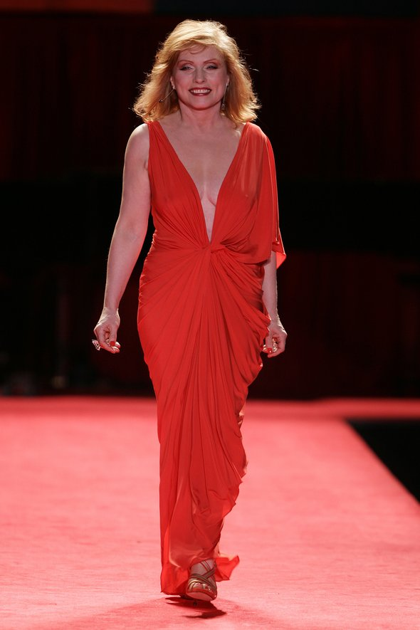 Debbie Harry modeling in The Heart Truth’s Red Dress Collections at New York’s Fashion Week, 2006